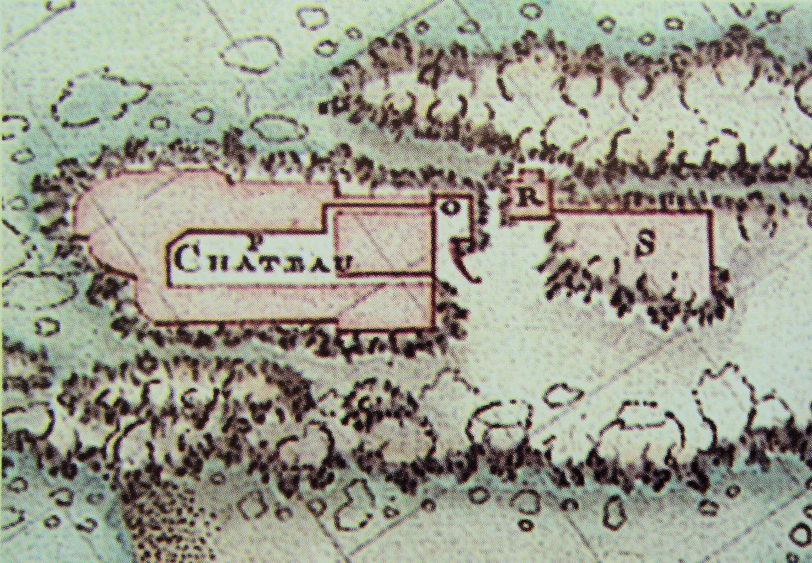 Castelo_Real_Theodore_Cornut_1767